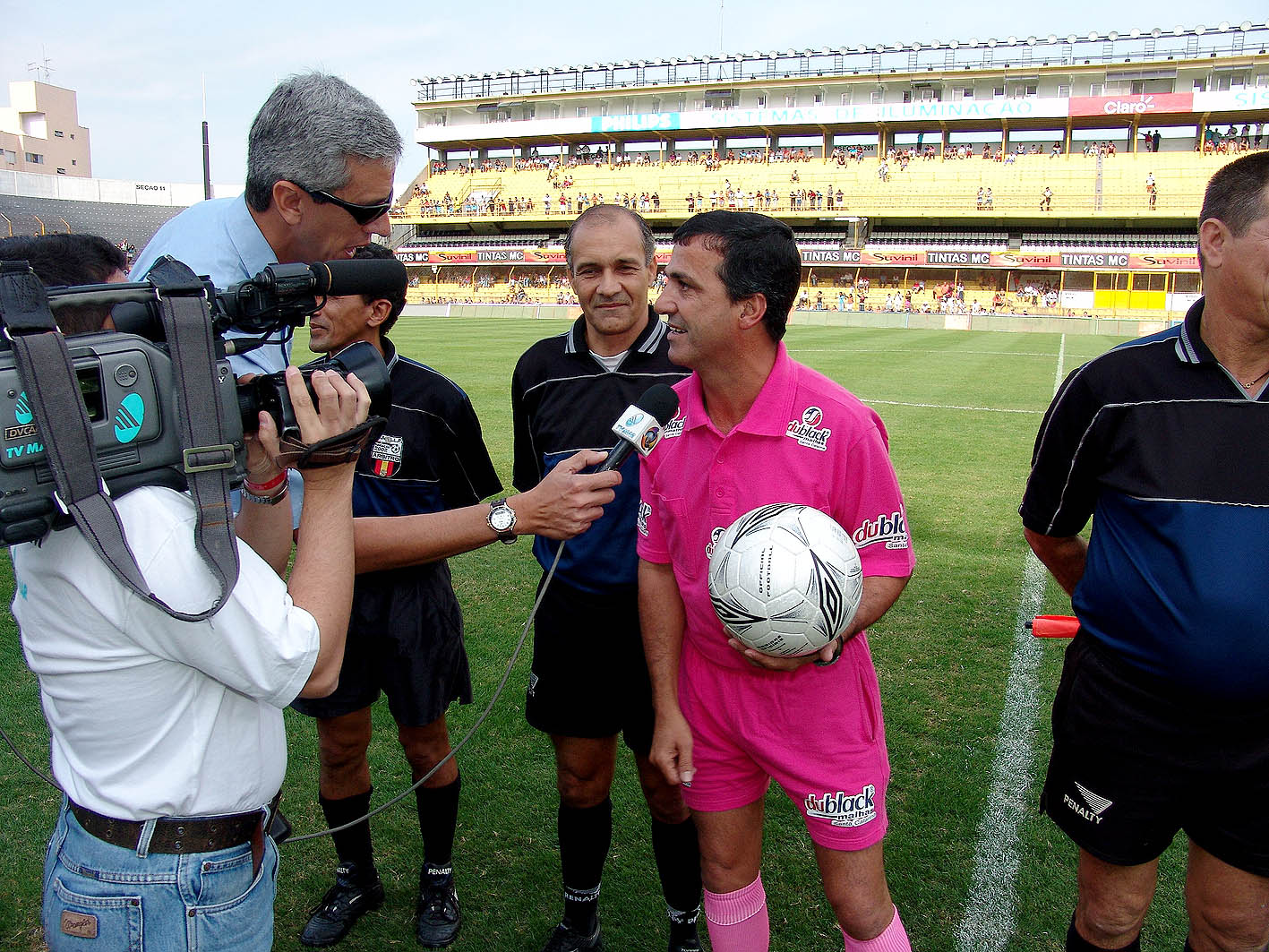 Clésio Moreira dos Santos, known as "Margarida" (Daisy), an openly heterosexual and flamboyant Brazilian football referee. One of three role models for this role was Jorge José Emiliano dos Santos, a openly gay and flamboyant Brazilian football Brazilian football referee, the original "Margarida"